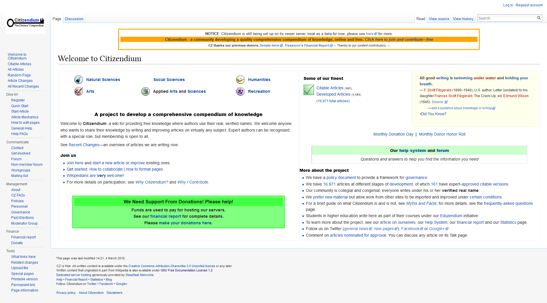 A screenshot of the welcome page of Citizendium, an online encyclopaedia project founded by.